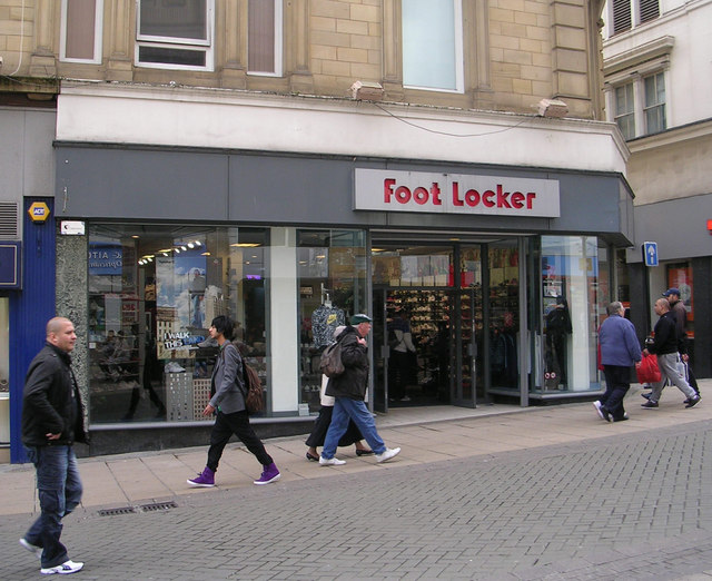 Foot Locker - Kirkgate